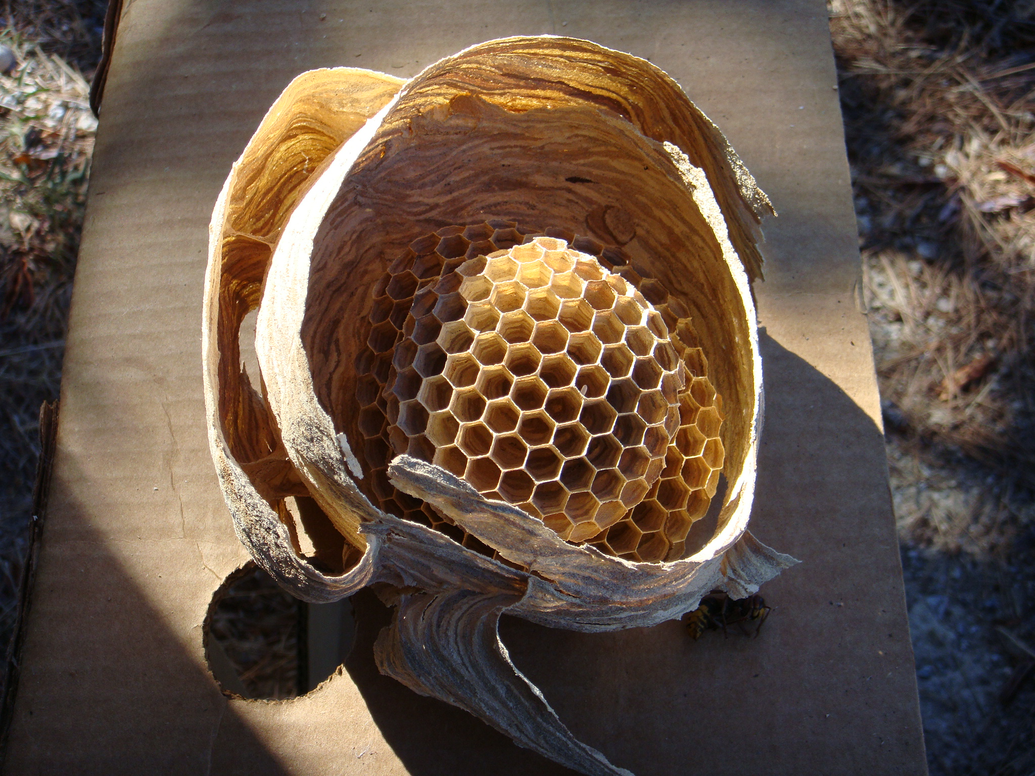 The nest of a Frelon